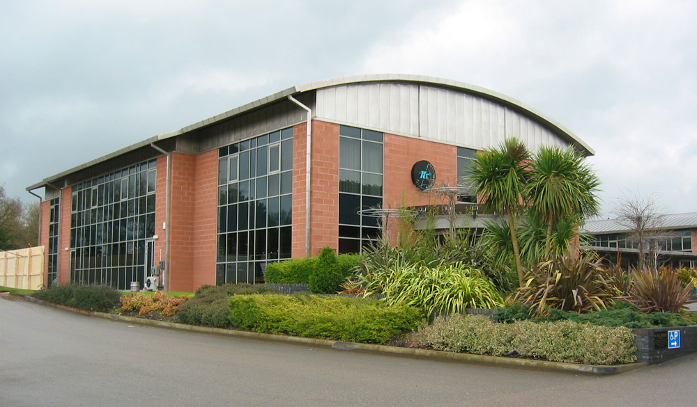 Crewe Hall Brasserie, near Crewe, Cheshire